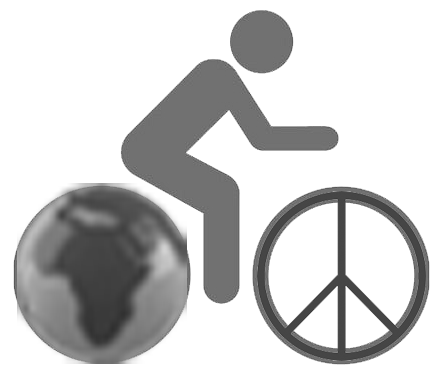 Logo oficial de la práctica del Bike Crossing